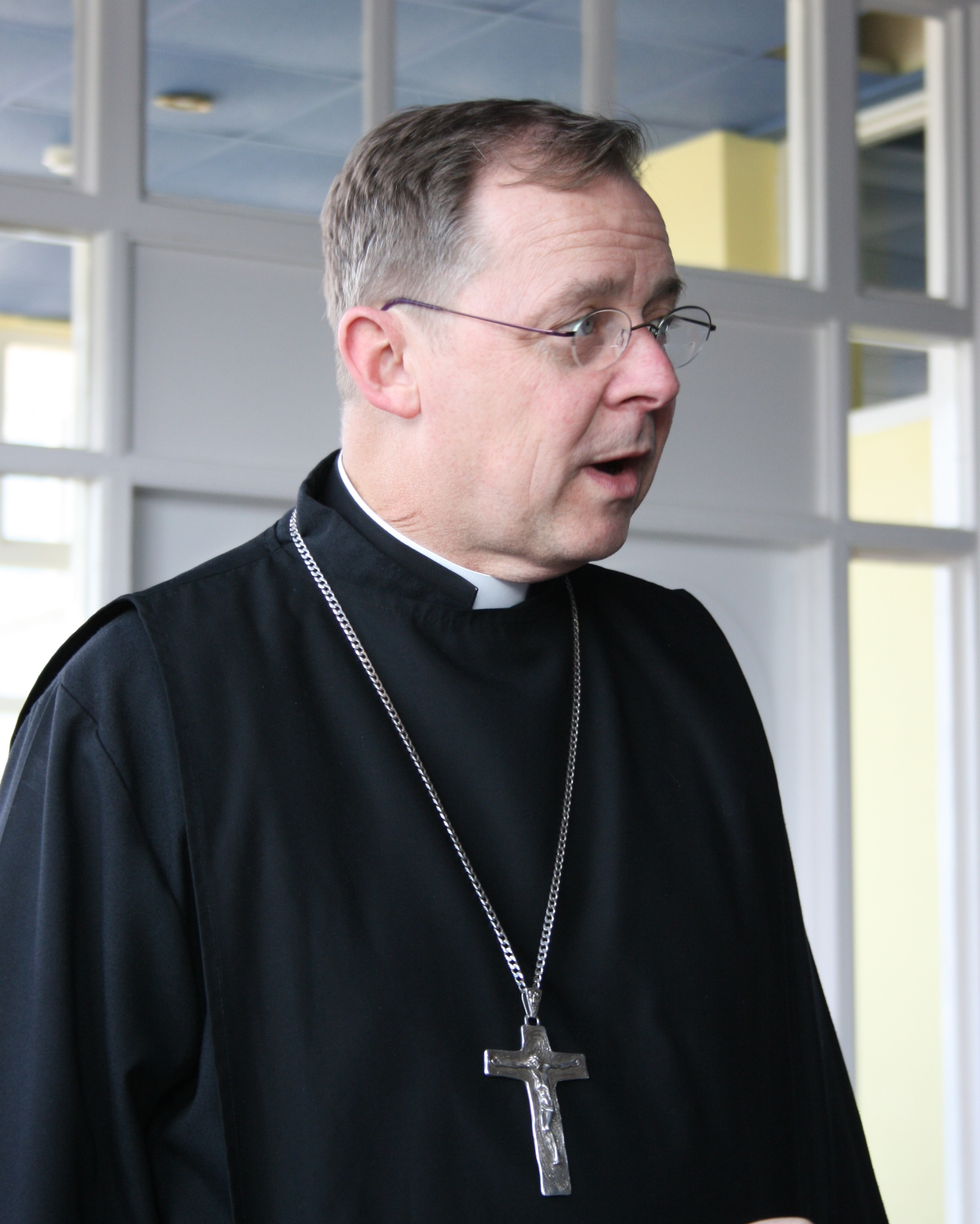 Bishop Lindsay Urwin OGS leading a group session at the final Caister retreat conference (at Pakefield, north Suffolk) in 2008.